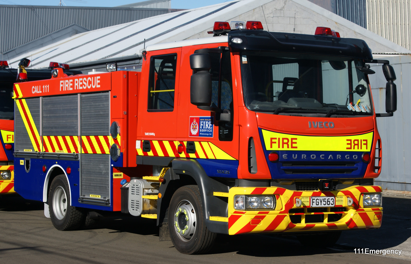 Newlands type 1 Iveco Fire Appliance